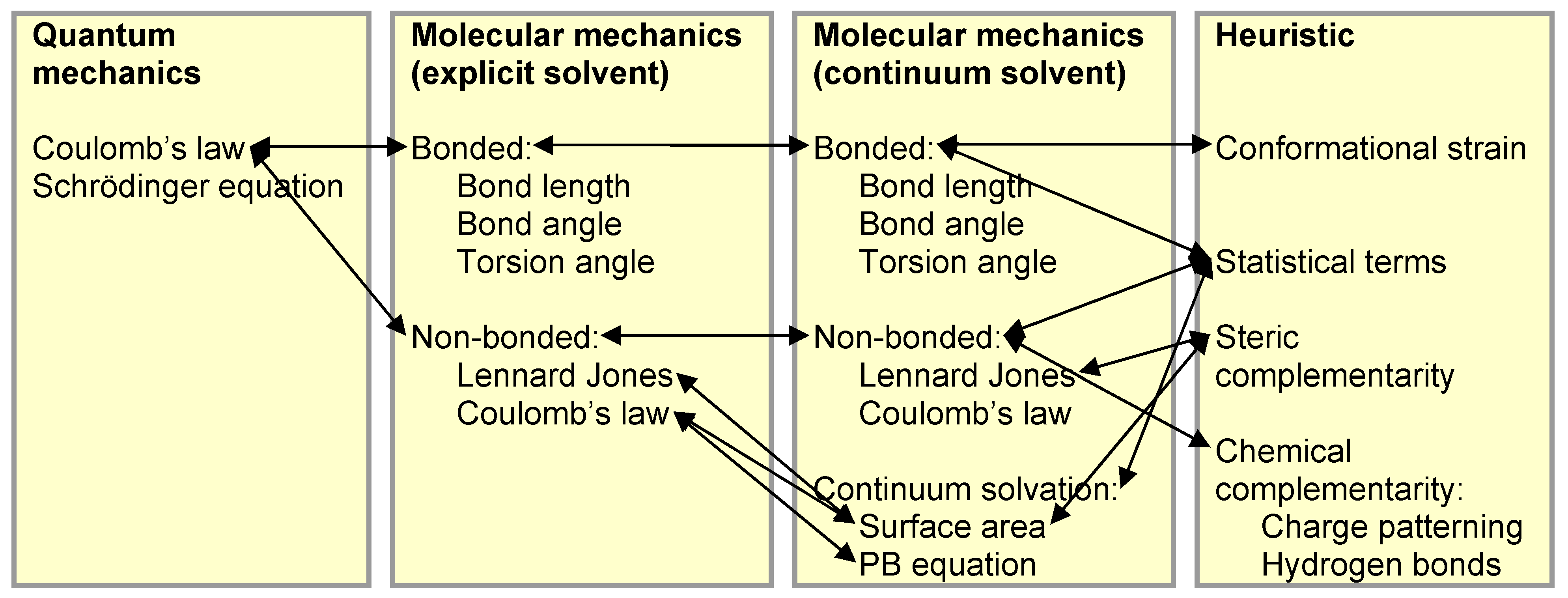 Potential energy functions for evaluating protein conformations range from quantum mechanics, which is accurate but very slow, to more heuristic energy functions that include statistical terms. In between are molecular mechanics potential energy functions, which are the most thoroughly tested models of molecular energetics. Currently, the protein design field uses heuristic energy functions, but the trend is towards using more physically based potential energy functions.